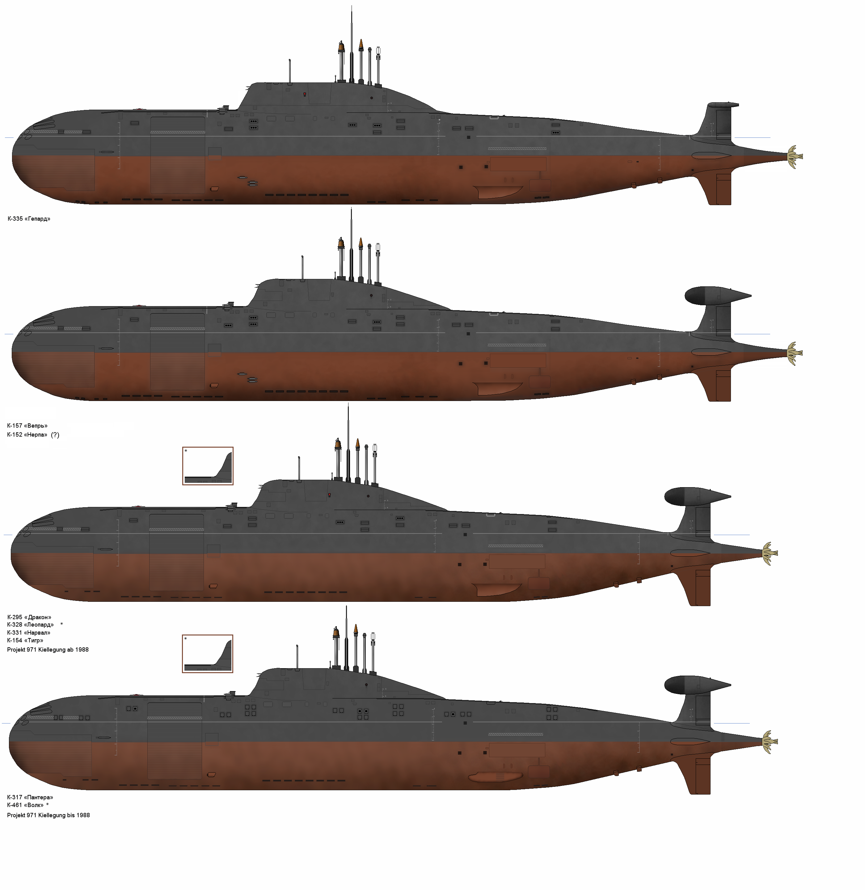 Drawing of the 4 different, currently thought to be active, versions of russian Akula class submarines. Starting with boats of the first flight/batch on the bottom, followed by the 2nd flight and finally showing the two variants of "Akula 2" class submarines in the upper half.